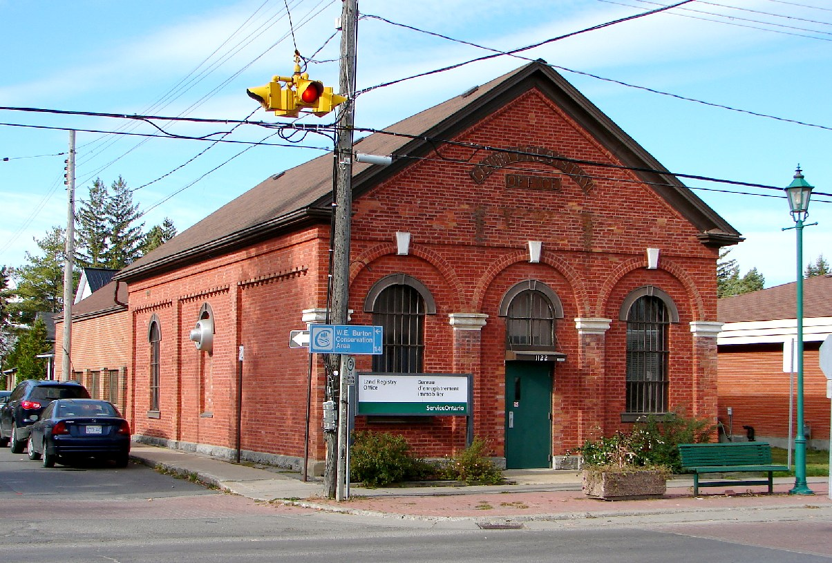 Land Registry Office in the centre of Russell (Russell Township), Ontario, Canada